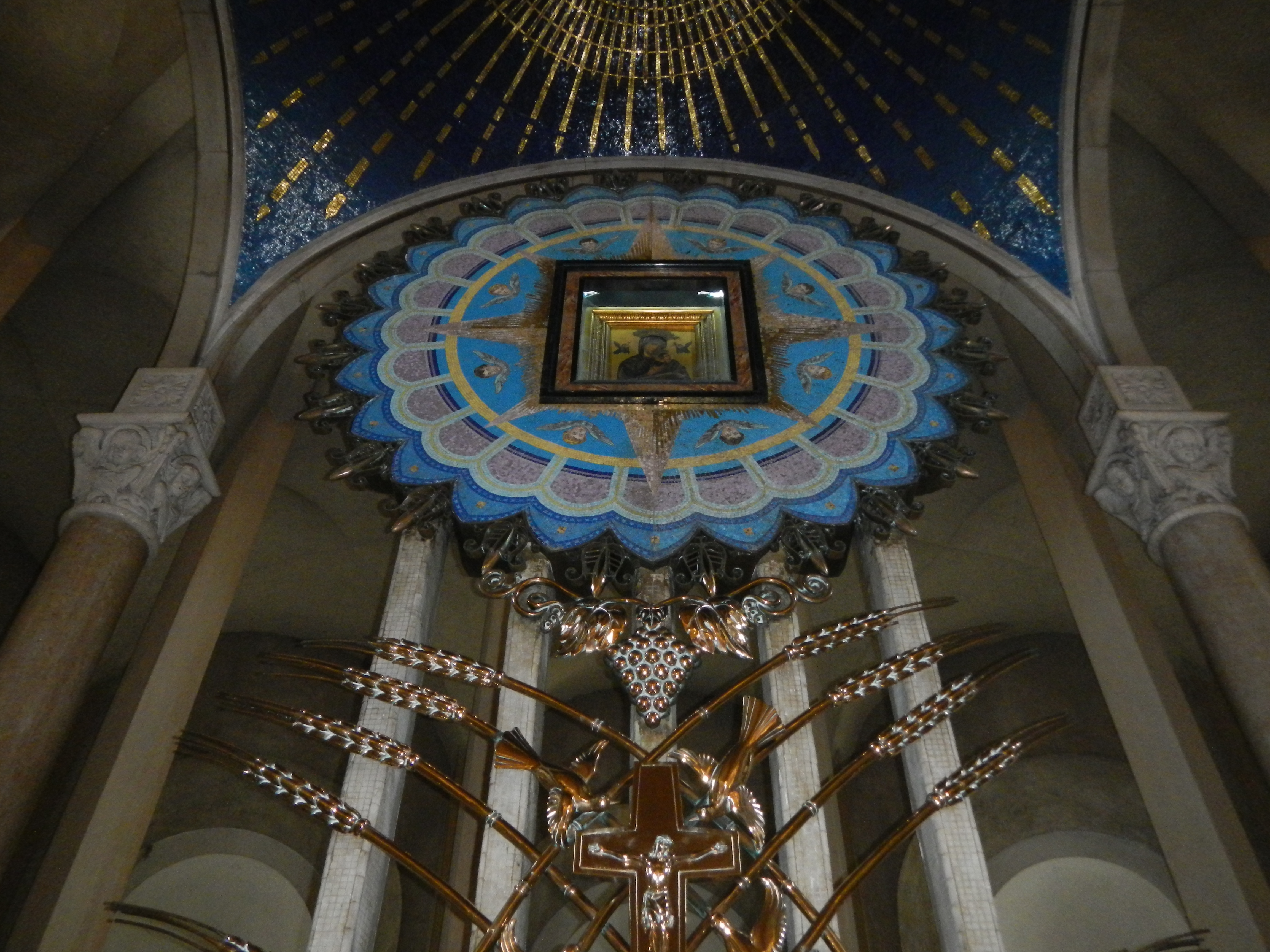 National Shrine of Our Mother of Perpetual Help[1][2] Coordinates: 14°31'52"N 120°59'42"E The National Shrine of Our Mother of Perpetual Help[3], also called the Redemptorist Church and the Baclaran Church, is a Roman Catholic parish church under the vicariate of the parish of Santa Rita de Cascia in the Diocese of Parañaque. The edifice is on Roxas Boulevard in the barangay of Baclaran in Parañaque City, Metro Manila. It is one of the most widely known churches in Metro Manila, and devotees from many parts of the region regularly flock to the sanctuary every Wednesday in what has become known as Baclaran Day. The parish celebrates its fiesta on June 27, the feast day of Our Mother of Perpetual Help. "the most attended church in Asia" is a coveted title Baclaran church, [4][5] Redemptorists Baclaran, Paranaque City, 1700 Metro Manila[6]Architect Cesar Concio[7][8][9]